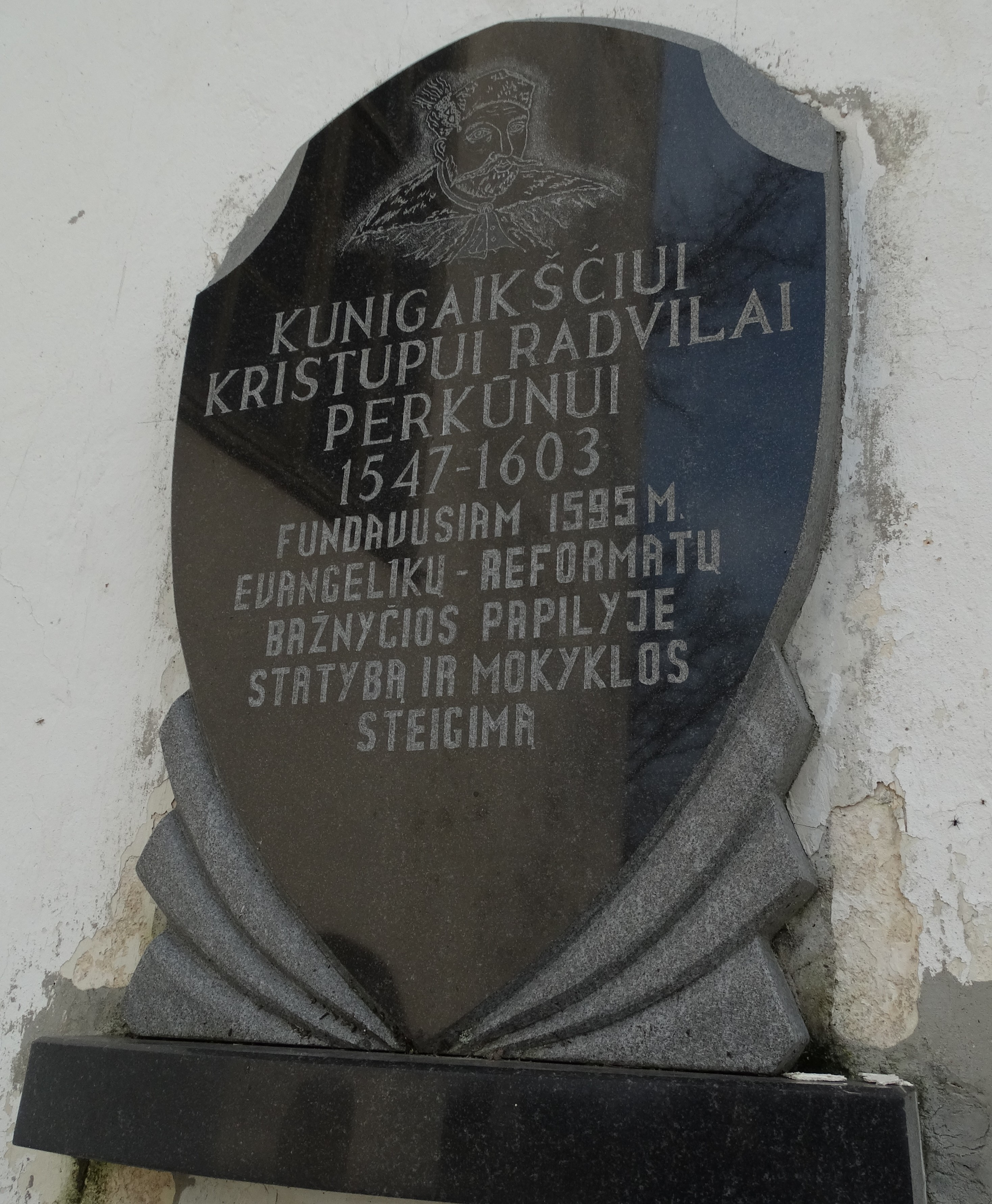 Memorial plaque to Krzysztof Mikołaj "the Thunderbolt", Evangelical Reformed Church, Papilys, Biržai district, Lithuania